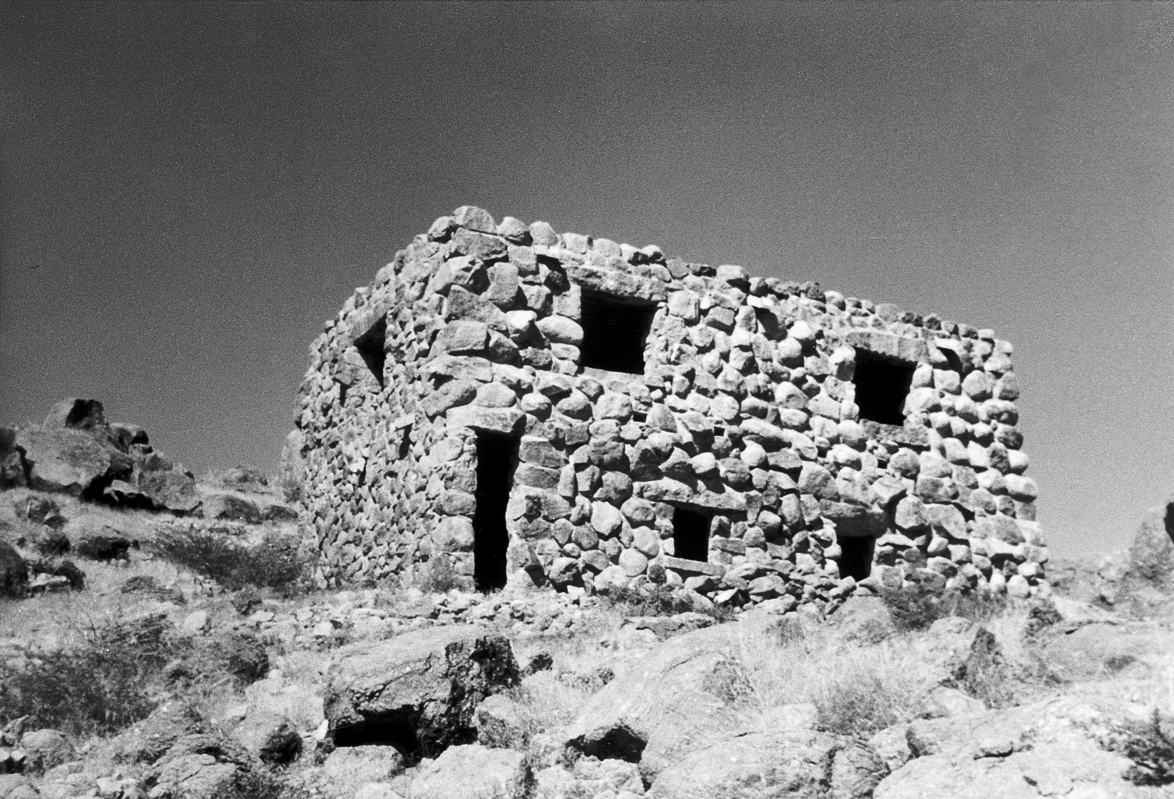 Jebel Moya site, Sudan; the House of Boulders. Wellcome Images Keywords: Henry Solomon Wellcome; Martin Taylor